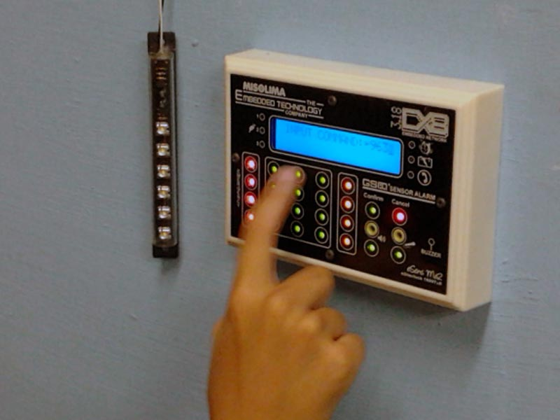 MISOLIMA eSherlock Home Automation master unit for Android